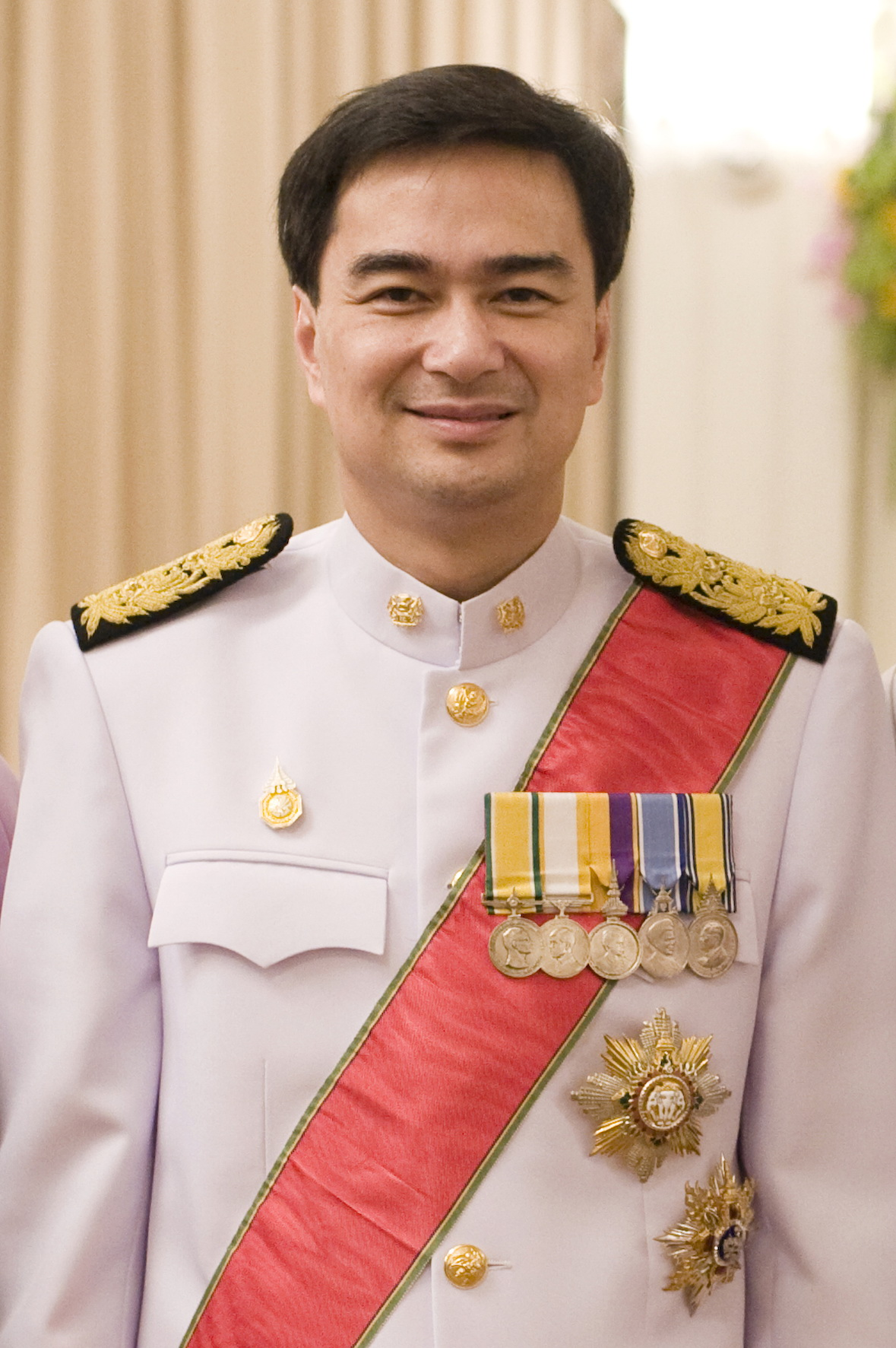 Cropped picture from sourcee, Abhisit Vejjajiva in ceremonial attire. Insignia of Orders worn are: Sash and breast star (top) of a Knight Grand Cordon (Special Class) of the Most Exalted Order of the White Elephant Breast star (bottom right) of a Knight Grand Cordon (Special Class) of the Most Noble Order of the Crown of Thailand Medals Left to Right: Silver Jubilee Medal of B.E. 2514 (AD 1971) Commemorative Medal of HRH Prince Vajiralongkorn's Investiture as Crown Prince Commemorative Medal on the Occasion of the Elevation of HRH Princess Sirindhorn to the title of "Princess Maha Chakri" Commemorative Medal on the Occasion of the 72nd Birthday Anniversary of HM Queen Sirikit Commemorative Medal on the Occasion of the 60th Anniversary of the Accession to the Throne of HM King Bhumibol Adulyadej